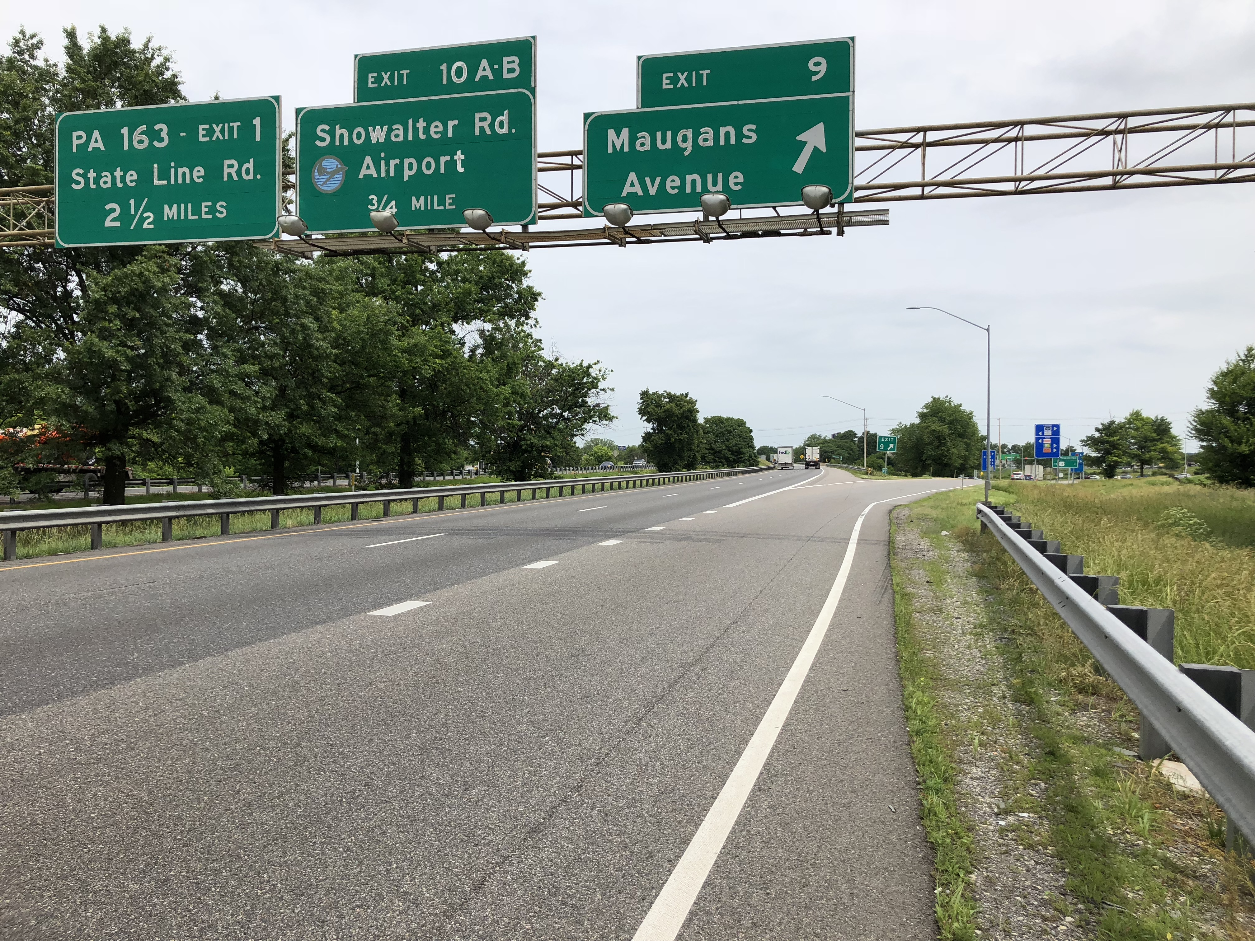 View north along Interstate 81 at Exit 9 (Maugans Avenue) on the edge of Fountainhead-Orchard Hills and Maugansville in Washington County, Maryland